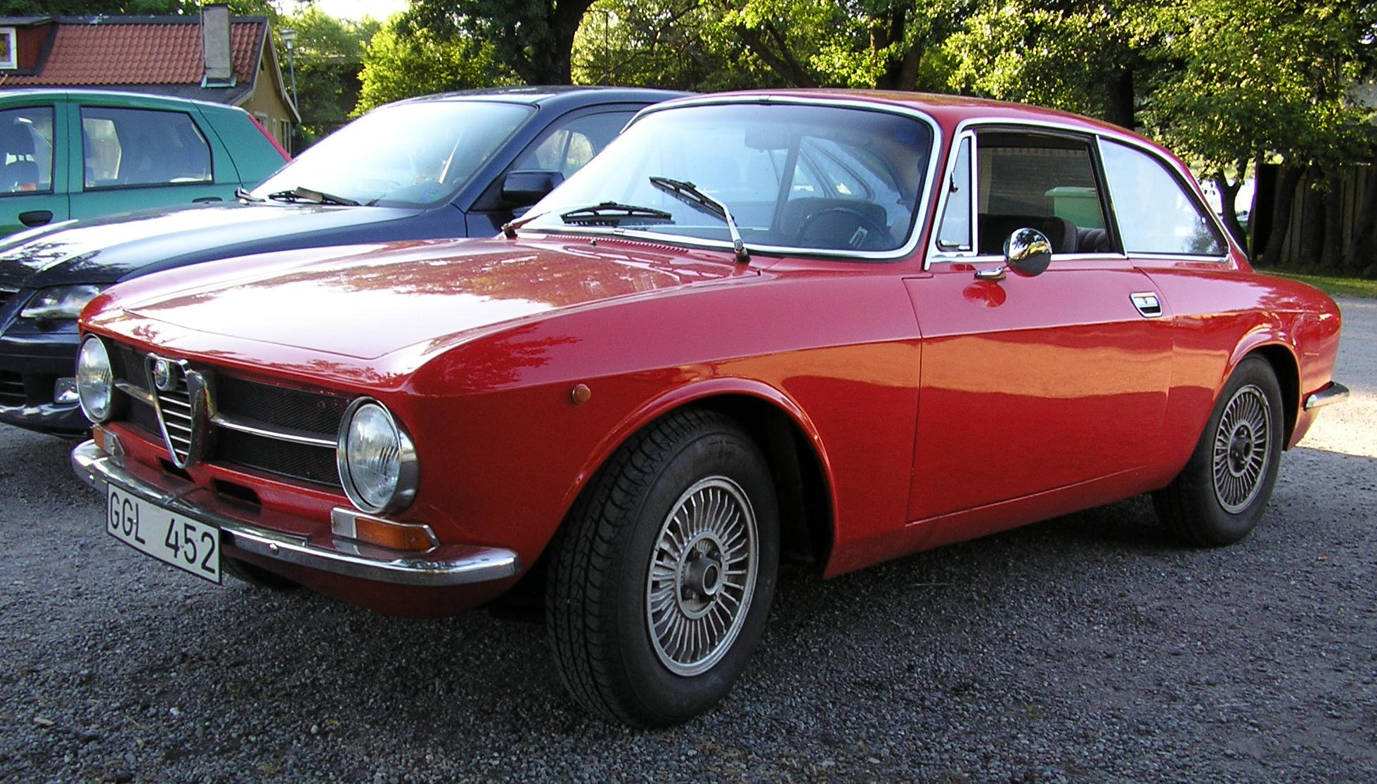 A 1972 Alfa Romeo Giulia 1300GT. Photographed by myself at Brostugan, Stockholm, Sweden 2005.